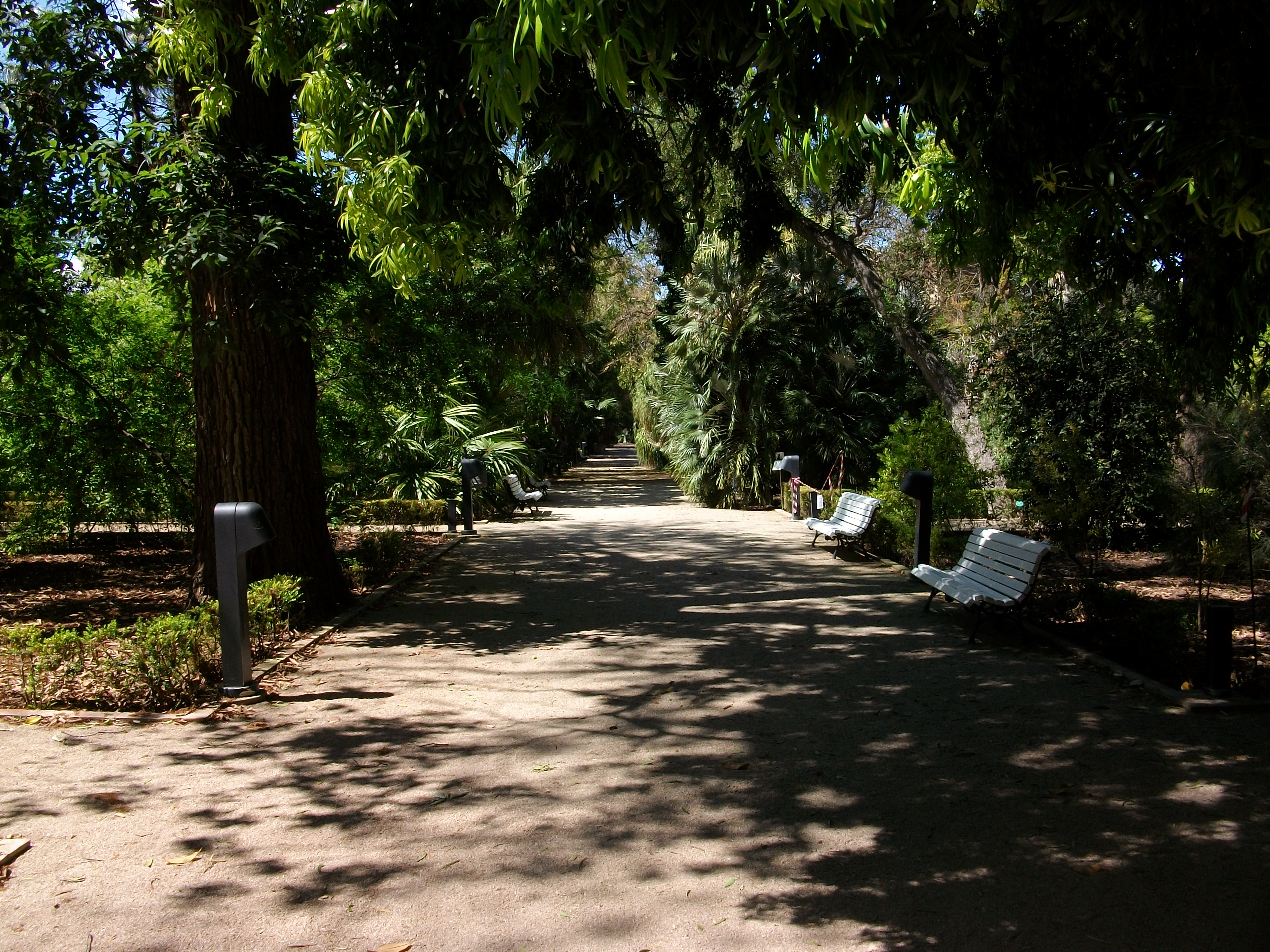 Botanical garden of València.